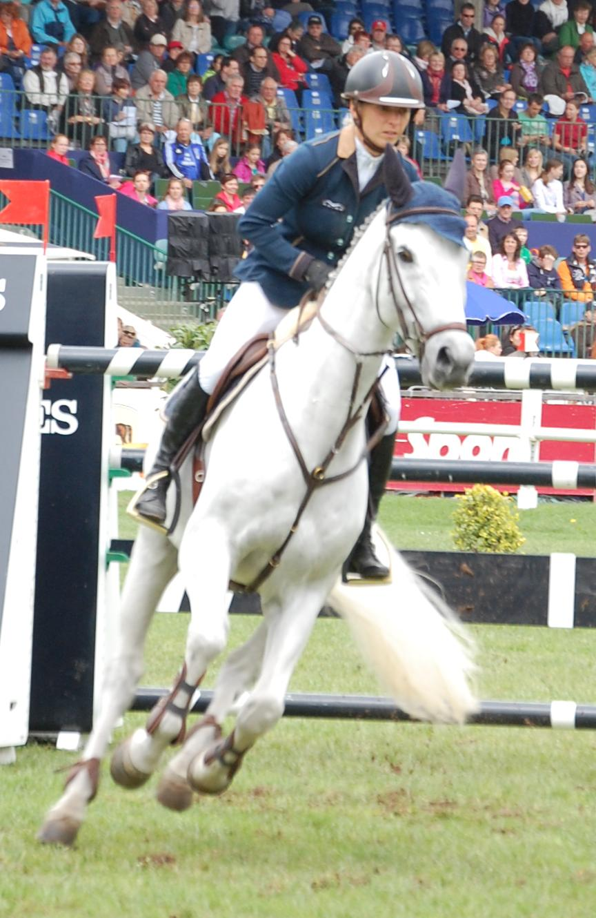 Ukrainian-German rider Katharina Offel with Charlie, "NFR Trophy", CSI 5* Hamburg 2013